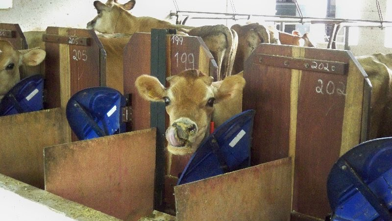 Cows milk pans in Ribeirão Preto, São Paulo, Brazil.